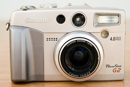 Image imported from Flickr by Jean-Jacques MILAN 22:59, 20 December 2006 (UTC)